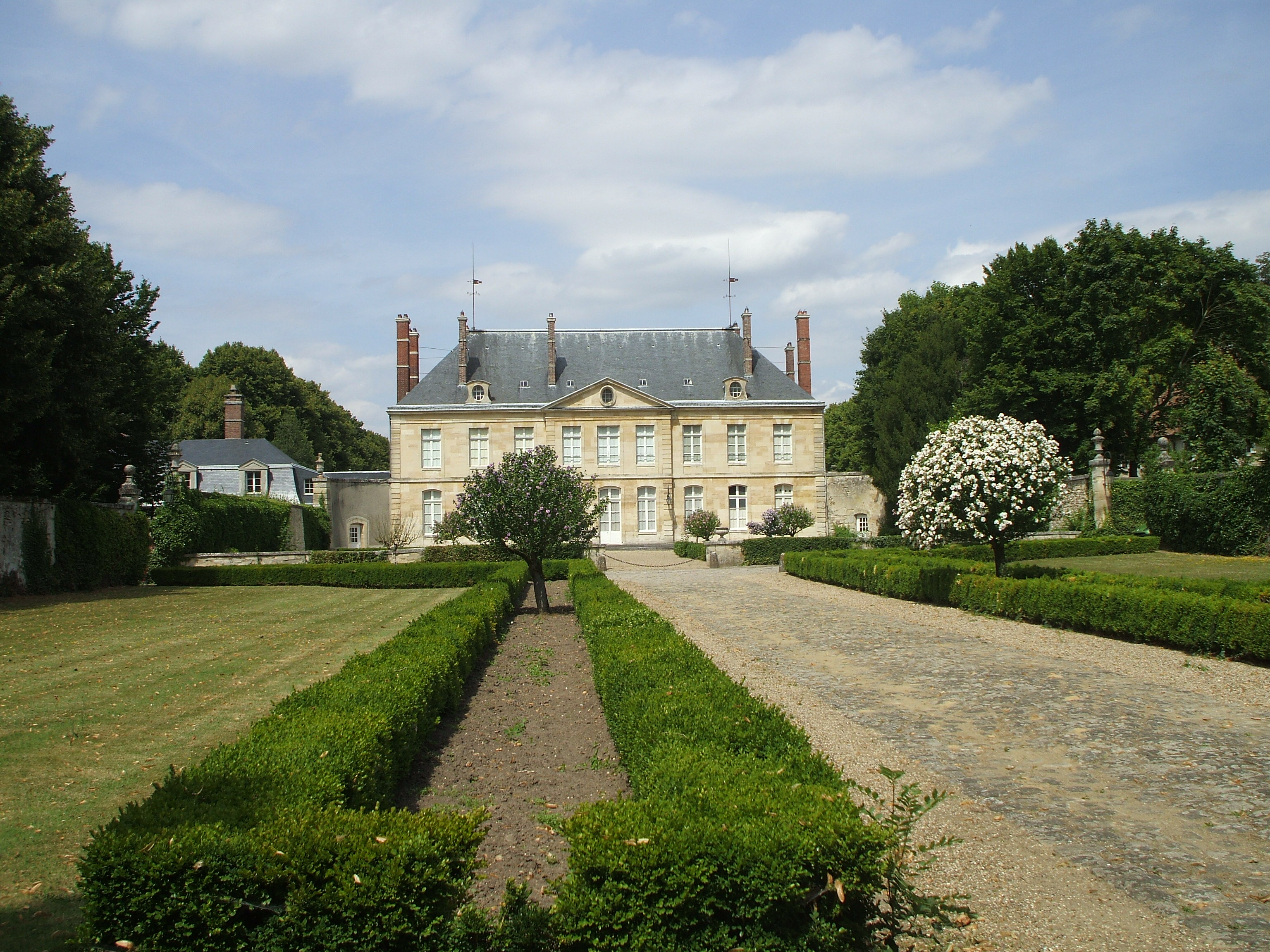 Castel of ennery val d'oise france